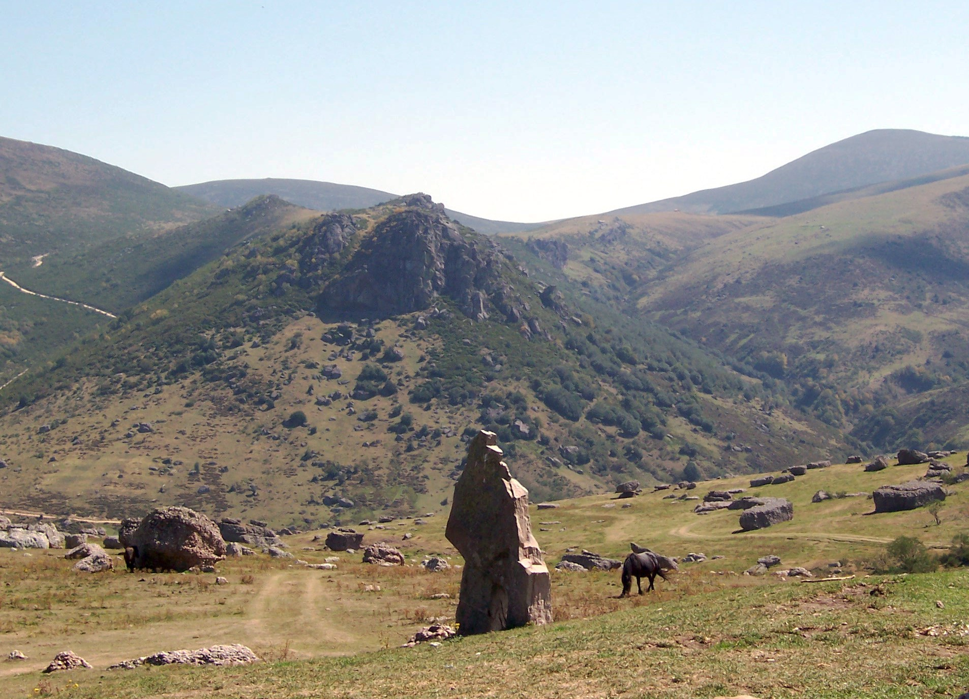 Great erected slab in Puertos de Sejos, Cantabria, Spain.